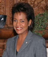 This image is cropped to show only Michaëlle Jean. The following is the description of the image it is based on: During her visit to Canada October 24-25, Secretary Rice paid a courtesy call on Governor General Michaëlle Jean